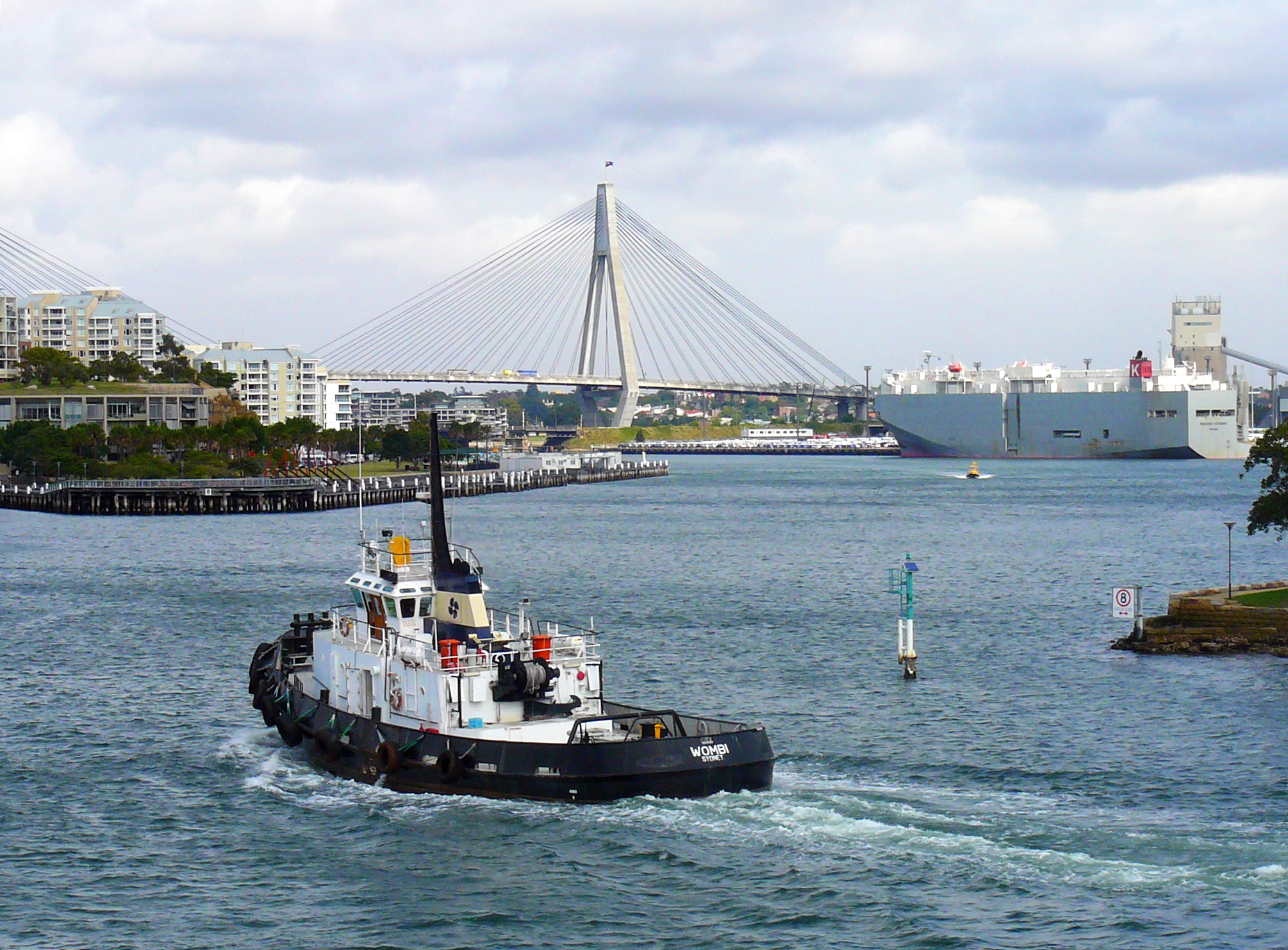 The tug Wombi near the entry to Darling Harbour. Pyrmont Point Park can be seen on the left and Anzac Bridge in the background. To the right is the Glebe Island Container Terminal.